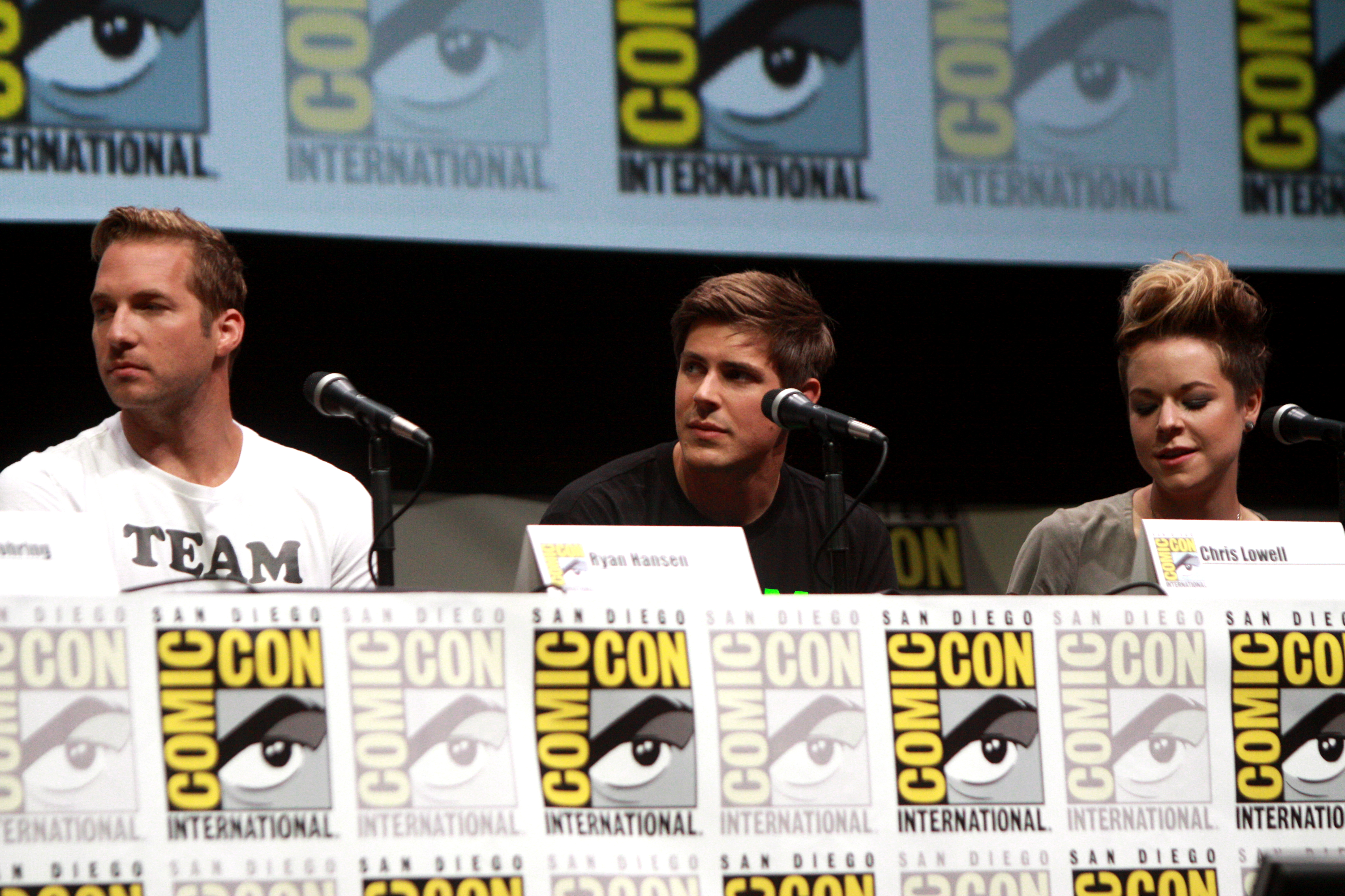 Tina Majorino speaking at the 2013 San Diego Comic Con International, for "Veronica Mars", at the San Diego Convention Center in San Diego, California.